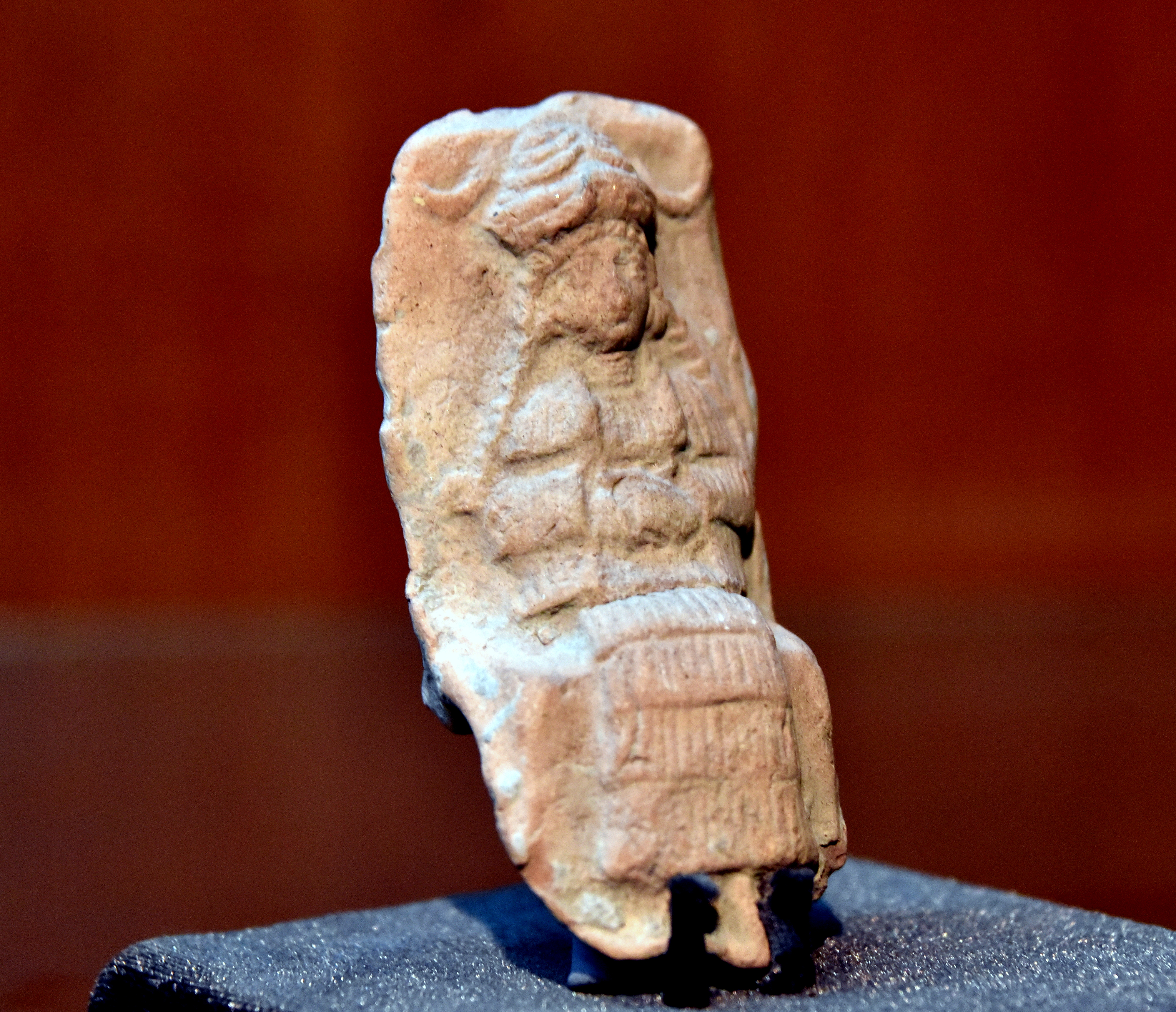 Mesopotamian female deity wearing a horned headdress and seating on a chair or a throne, probably Ishtar or Bau. The lunar symbol of the moon god Sin appears at the upper part, flanking the headdress. Elaborate dress and braided hair strands. Old-Babylonian period, 2003-1595 BCE. Fired clay plaque from Ur, Southern Mesopotamia, Iraq. The Sulaymaniyah Museum, Iraq.